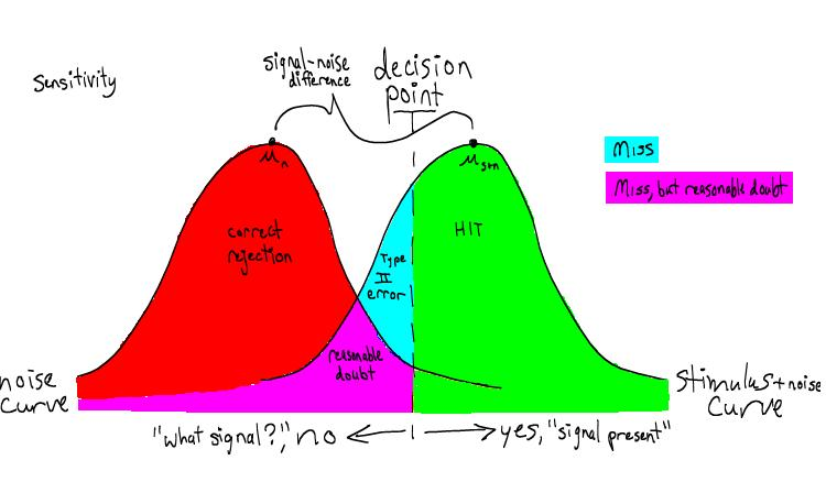 A visual representation of Detection theory, with a chance for Type II statistical error also shown(if the decision point were placed left of where the curves meet, the section akin to this would represent type I error)